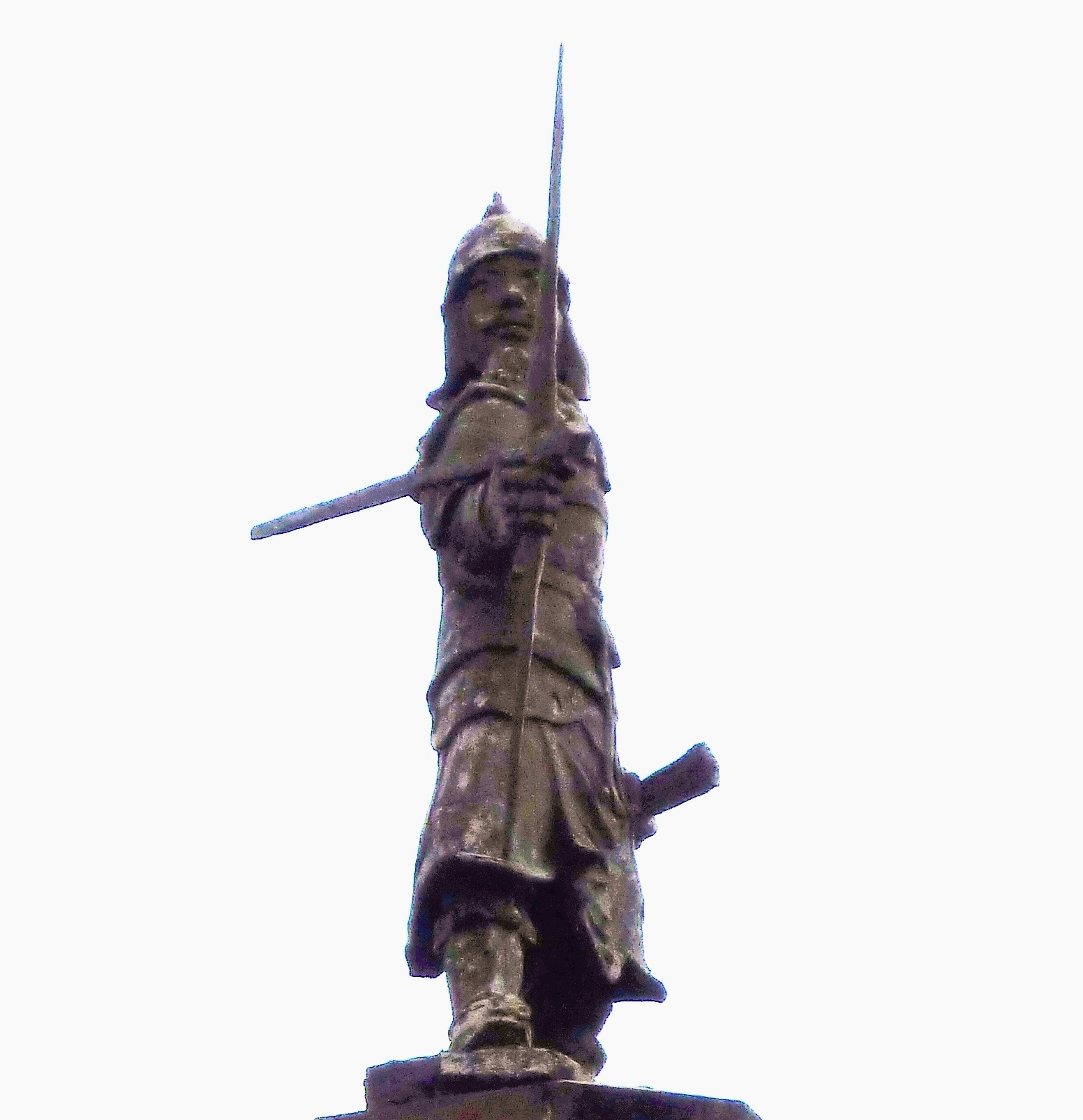 Statue of An Duong Vuong, ruler of Vietnam (257 to 207 BCE) in district 5, Ho Chi Minh City